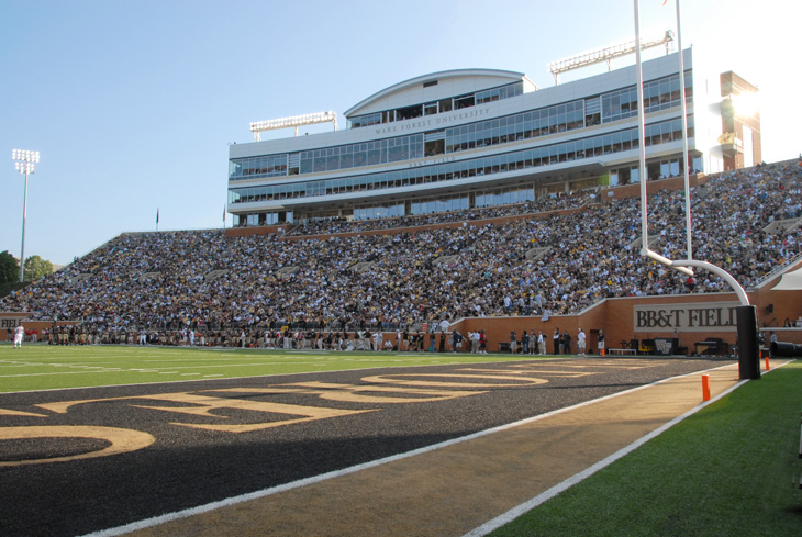 BB&T Field and Deacon Tower, Wake Forest University Football Stadium, Wake Forest vs. Ole Miss, September 6, 2008.